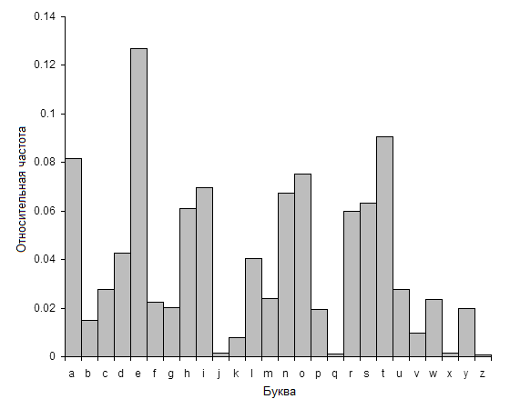 English single letter frequencies. Created from data from letter frequencies. и